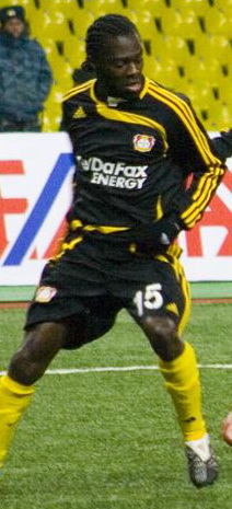 Hans Sarpei